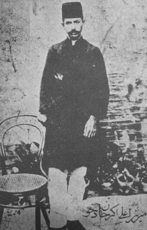 Dehkhoda